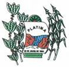 Image of brazilian Public Domain, coat of arms of the brazilian town of Platina, State of São Paulo. Any flag or coats of arms is free of use, in Brazil.